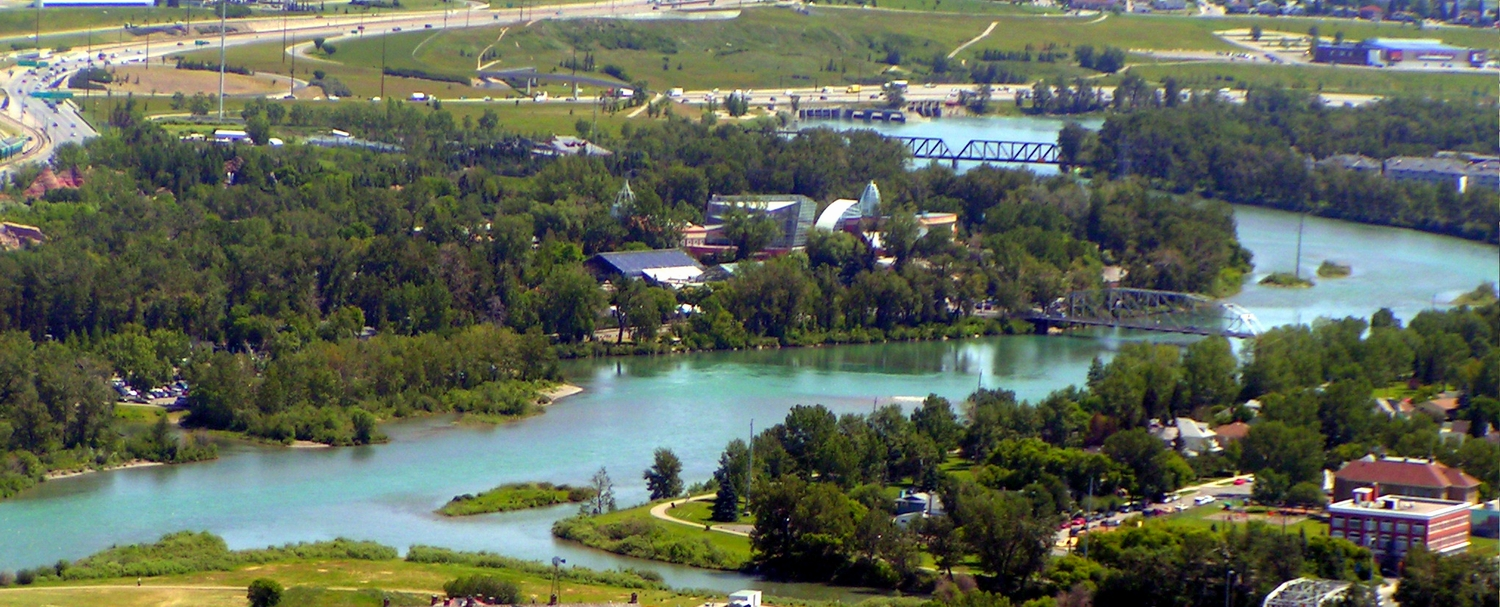 Bow River through Calgary, Alberta, Canada, with Zoo on island